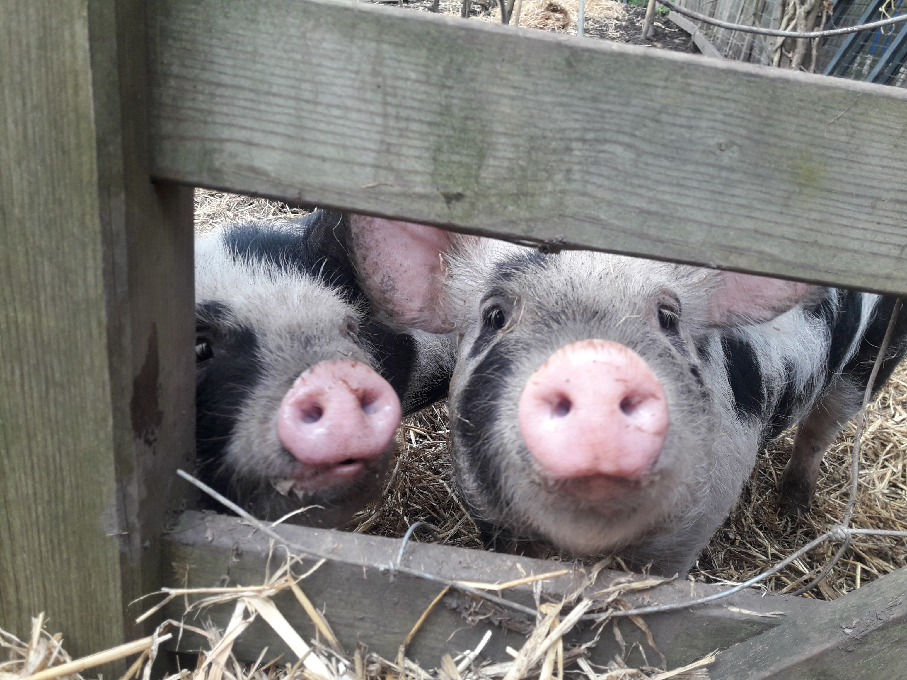 Pigs, Horsenden Farm, Perivale